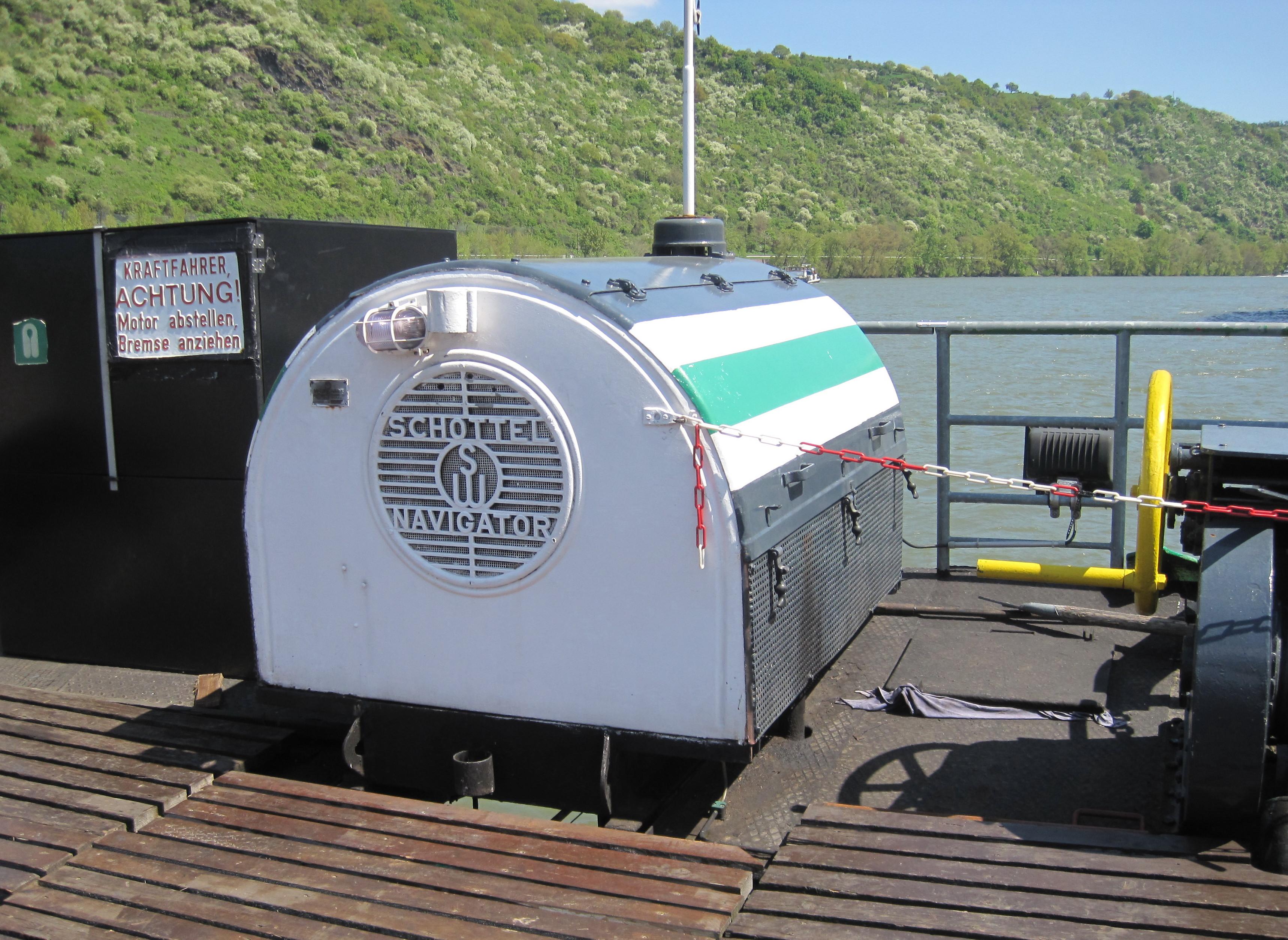 Rhineferry "Stadt Boppard". Construction year: 1892. Boppard, Rhineland-Palatinate, Germany. Schottel Navigator 370/61.